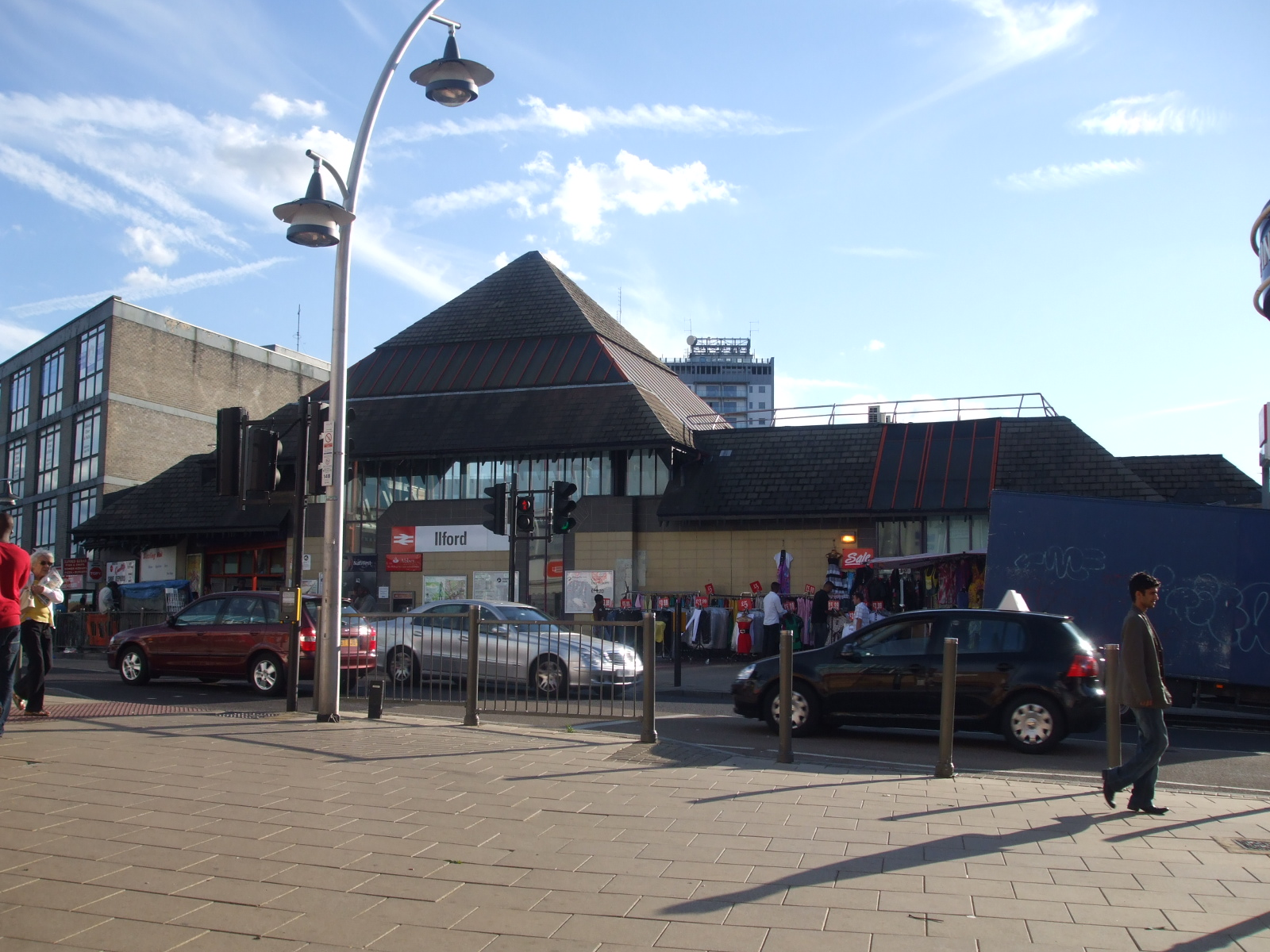 Ilford station main entrance